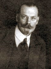 Russian Landscape Art and Society Painter S.A. Vinogradov (1870-1938)